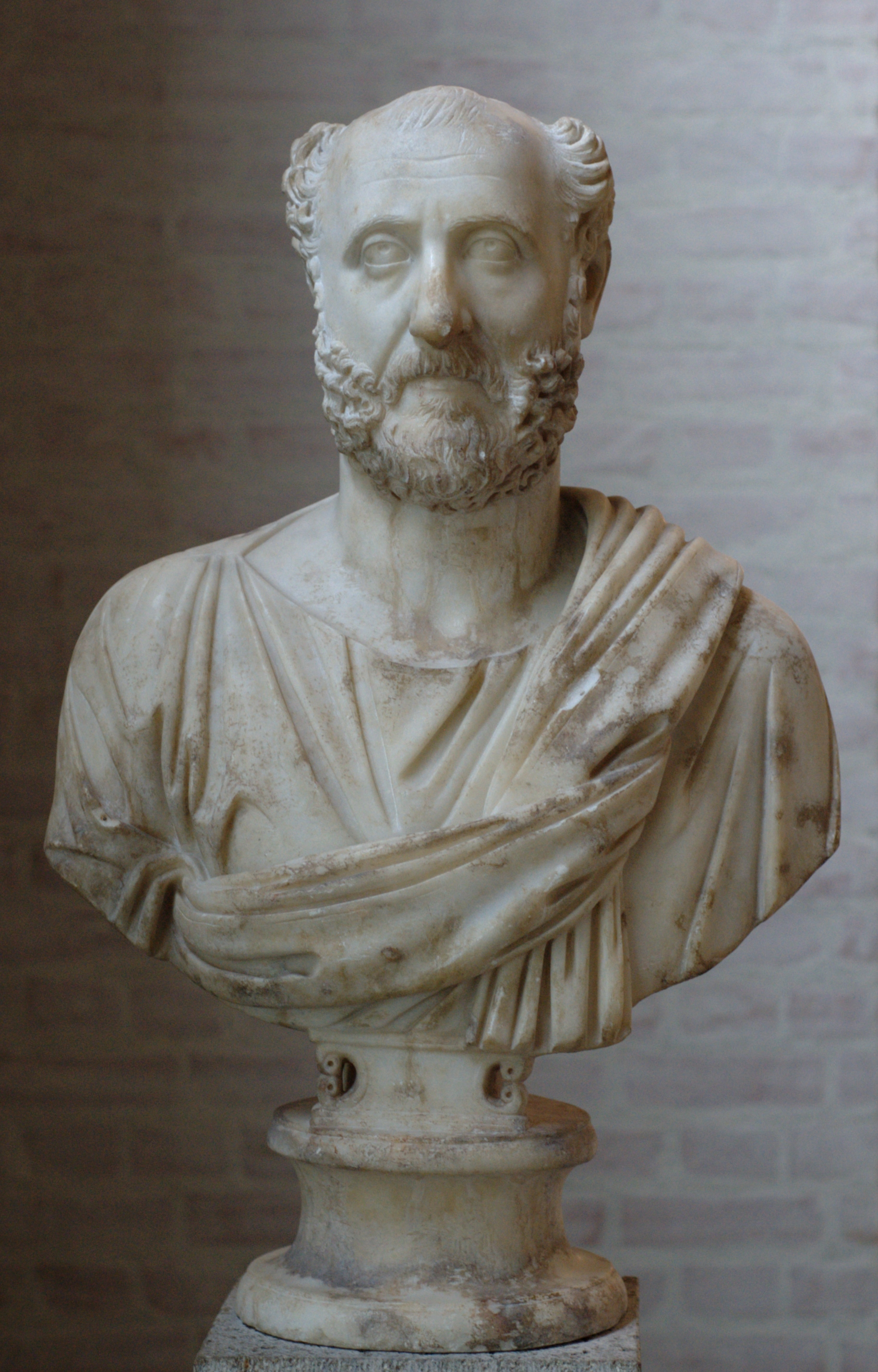 Bust of a Roman wearing toga (symbol of a civil function).